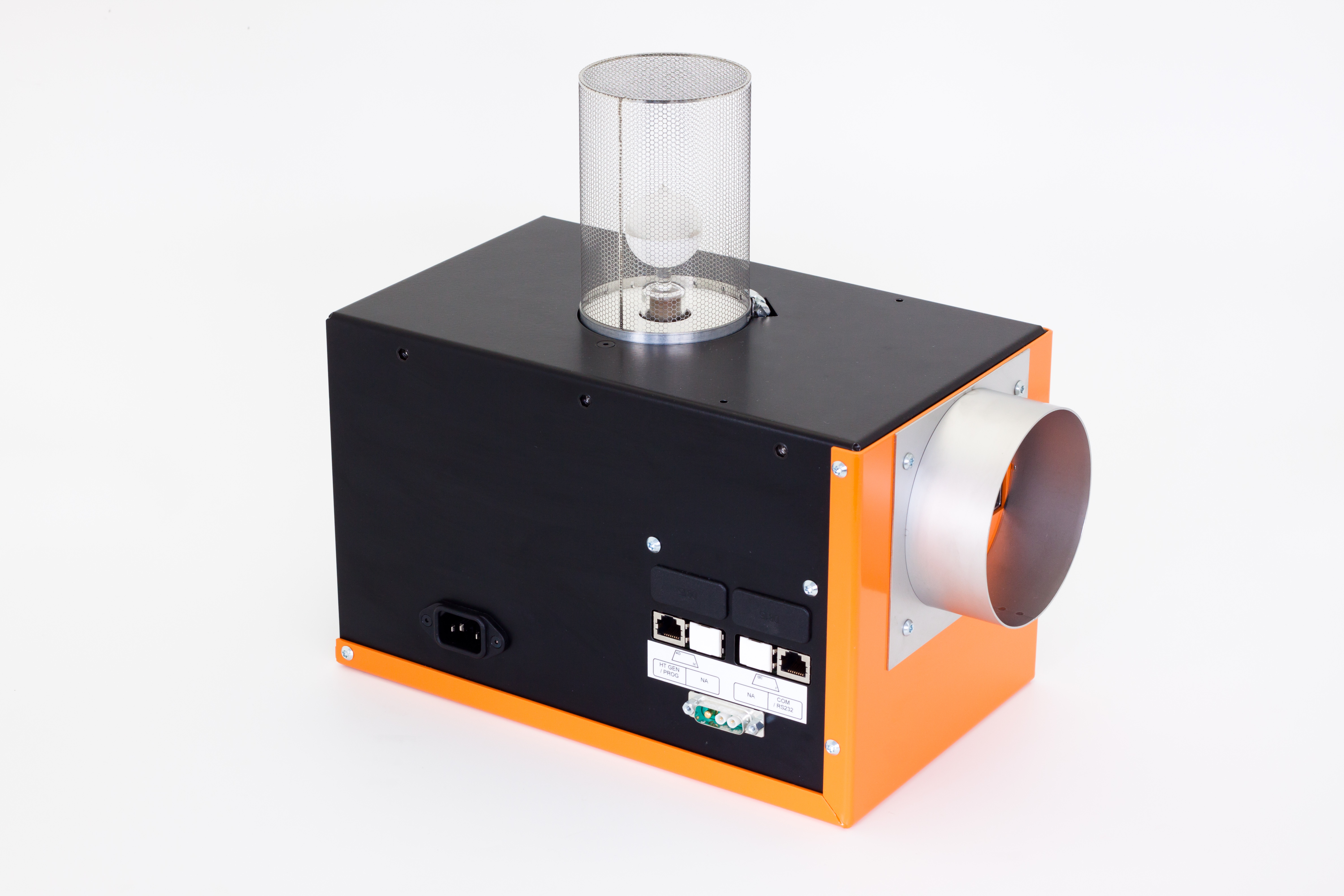 Plasma lamp second generation for solar simulation